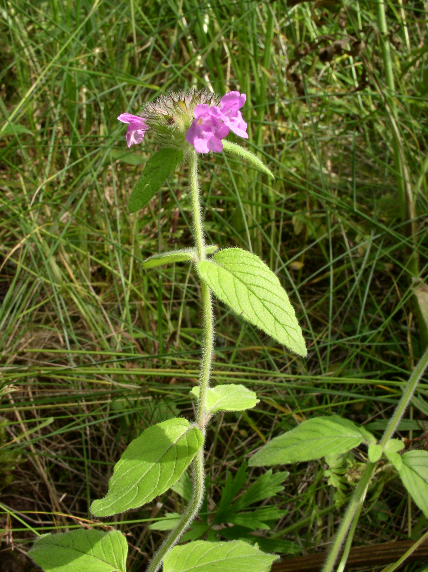 Clinopodium vulgare plant in Savonlinna, Finland.